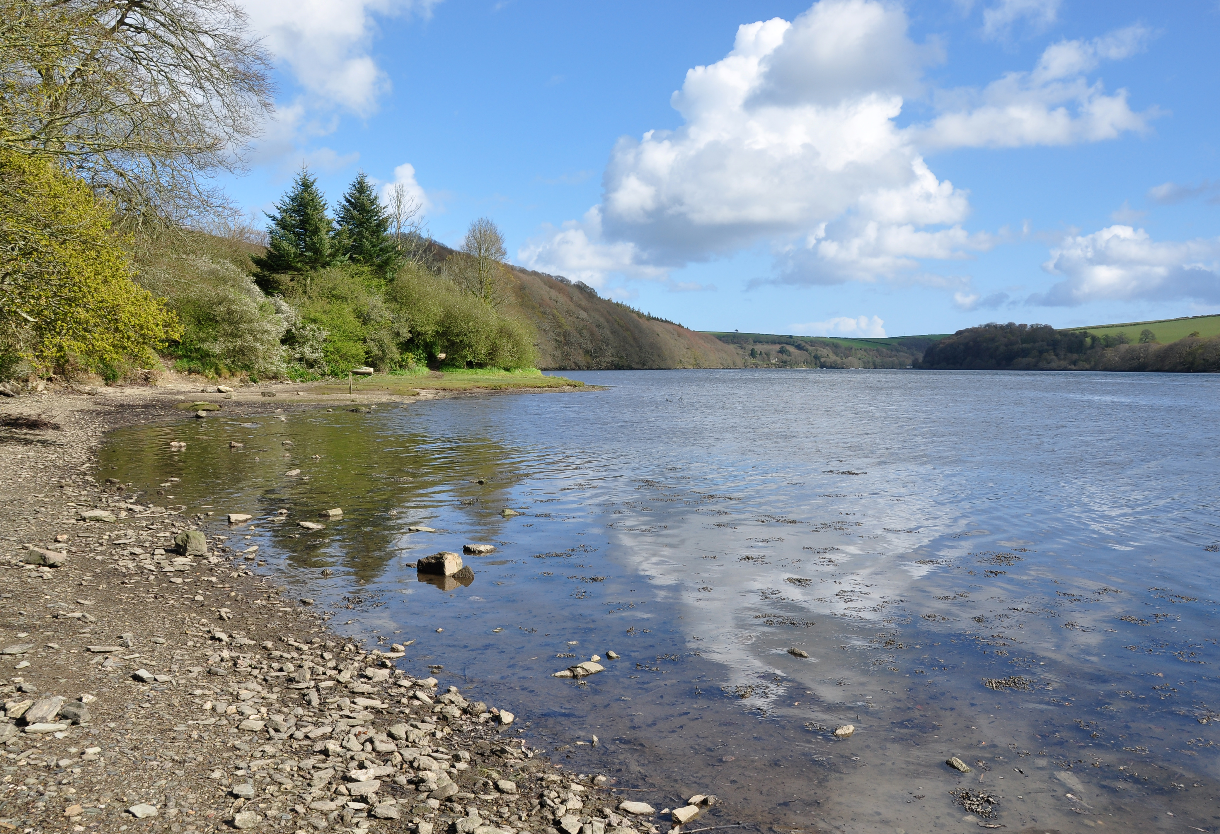 The Fowey Estuary in Cornwall, below St Winnow.